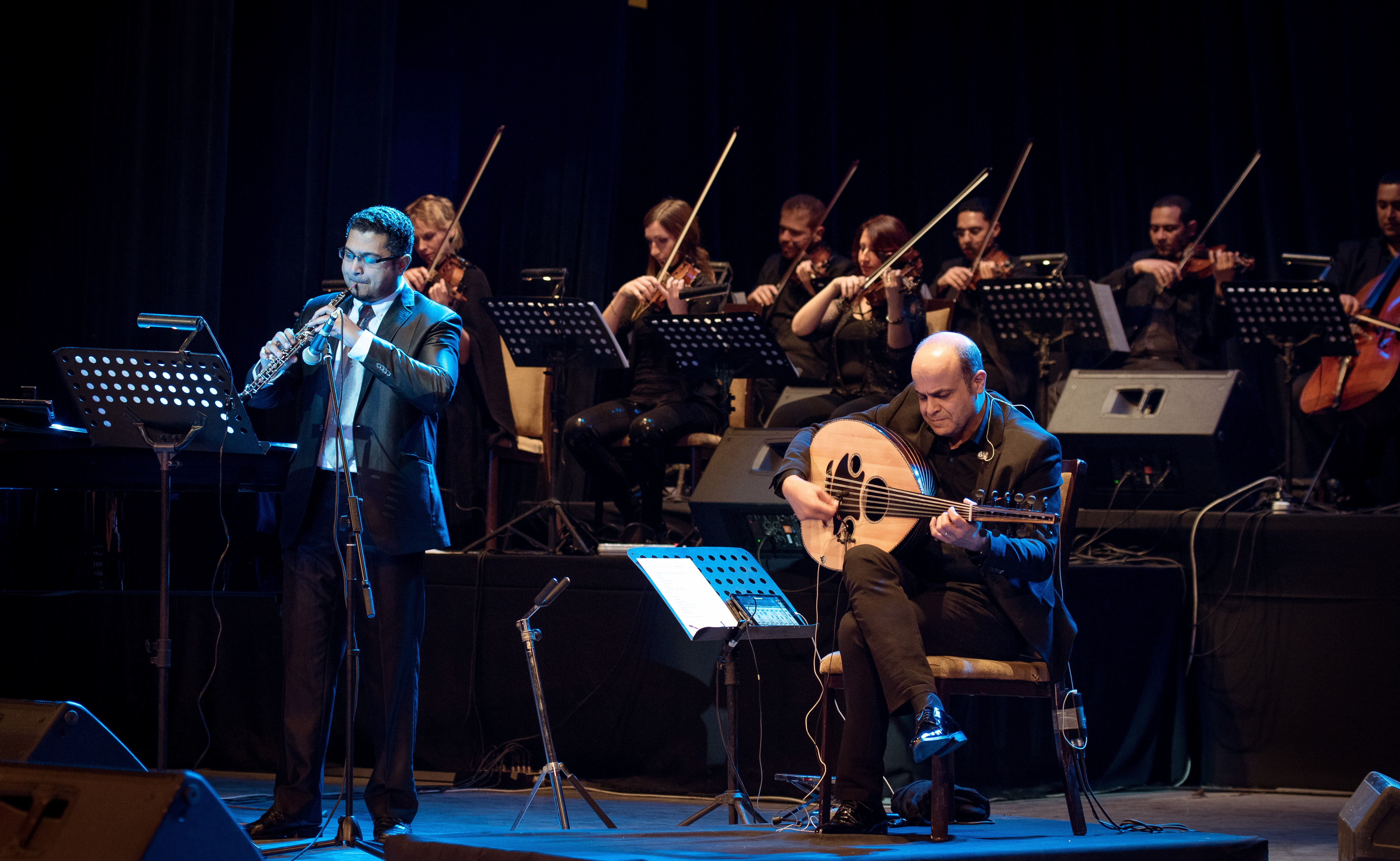 This is an image from Egypt